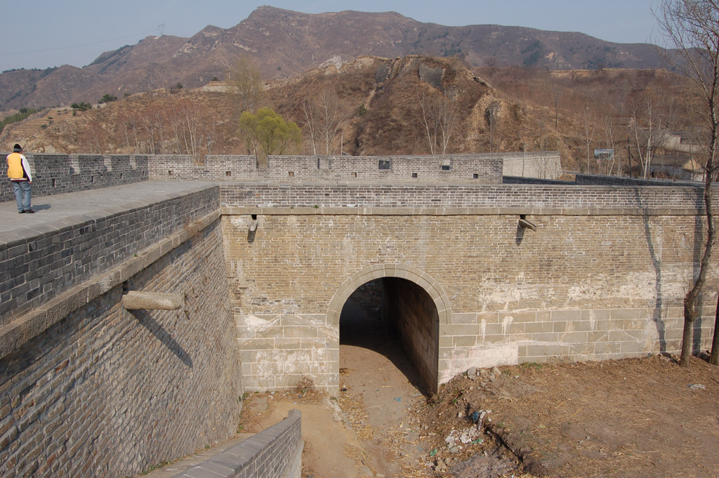 Great Wall at Zijingguan, Yi County, Hebei Province.